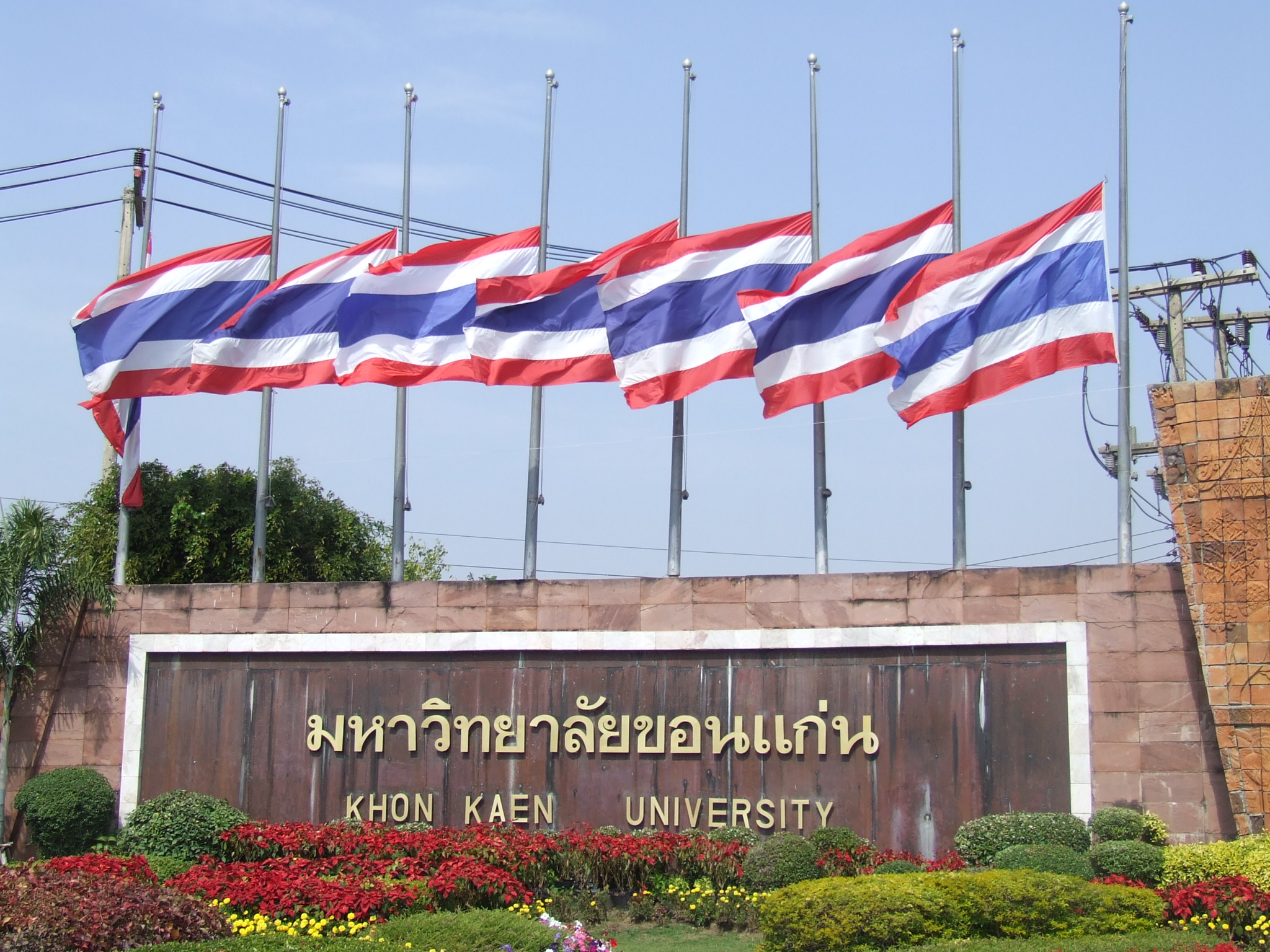 Half-staff for the passing away of HRH Princess Galyani Vadhana at Sithan Gate, Khon Kaen University, Thailand.